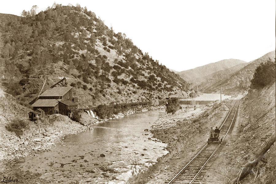 Yosemite Valley Railroad At The Mine E. A. Cohen Photo Sept. 7 1907